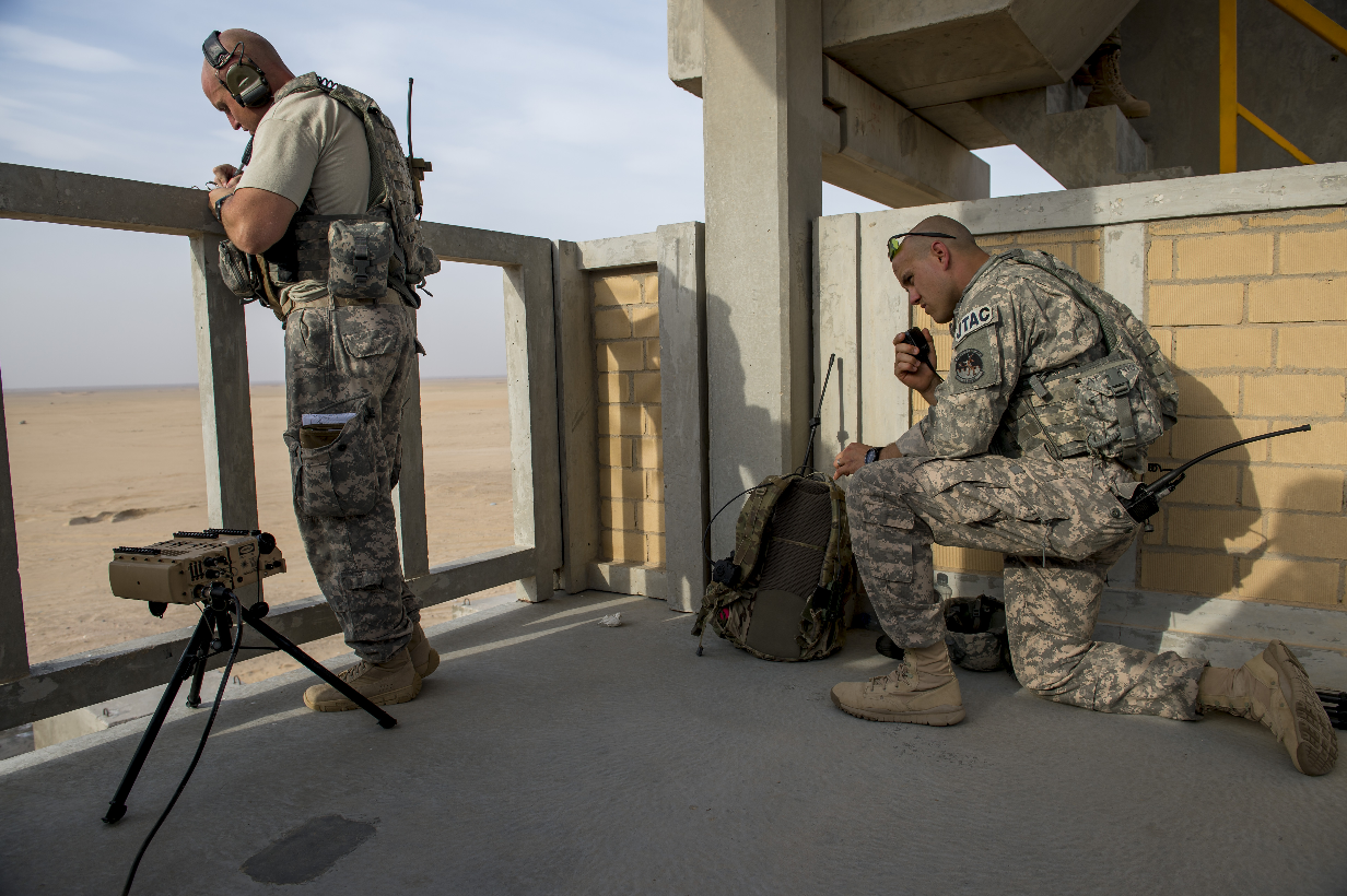 U.S. Air Force Staff Sgt. Jacob Noojin, 82nd Expeditionary Air Support Operations Squadron, calls in air support during a Joint Operations live-fire exercise on May 7, 2014 at an undisclosed location in Southwest Asia. Noojin is a Tactical Air Control Party member deployed from the 13th Air Support Operations Squadron, Fort Carson, Colo. The operation consisted of Army, Air Force, and Navy personnel working together to conduct a coordinated strike against a single target.